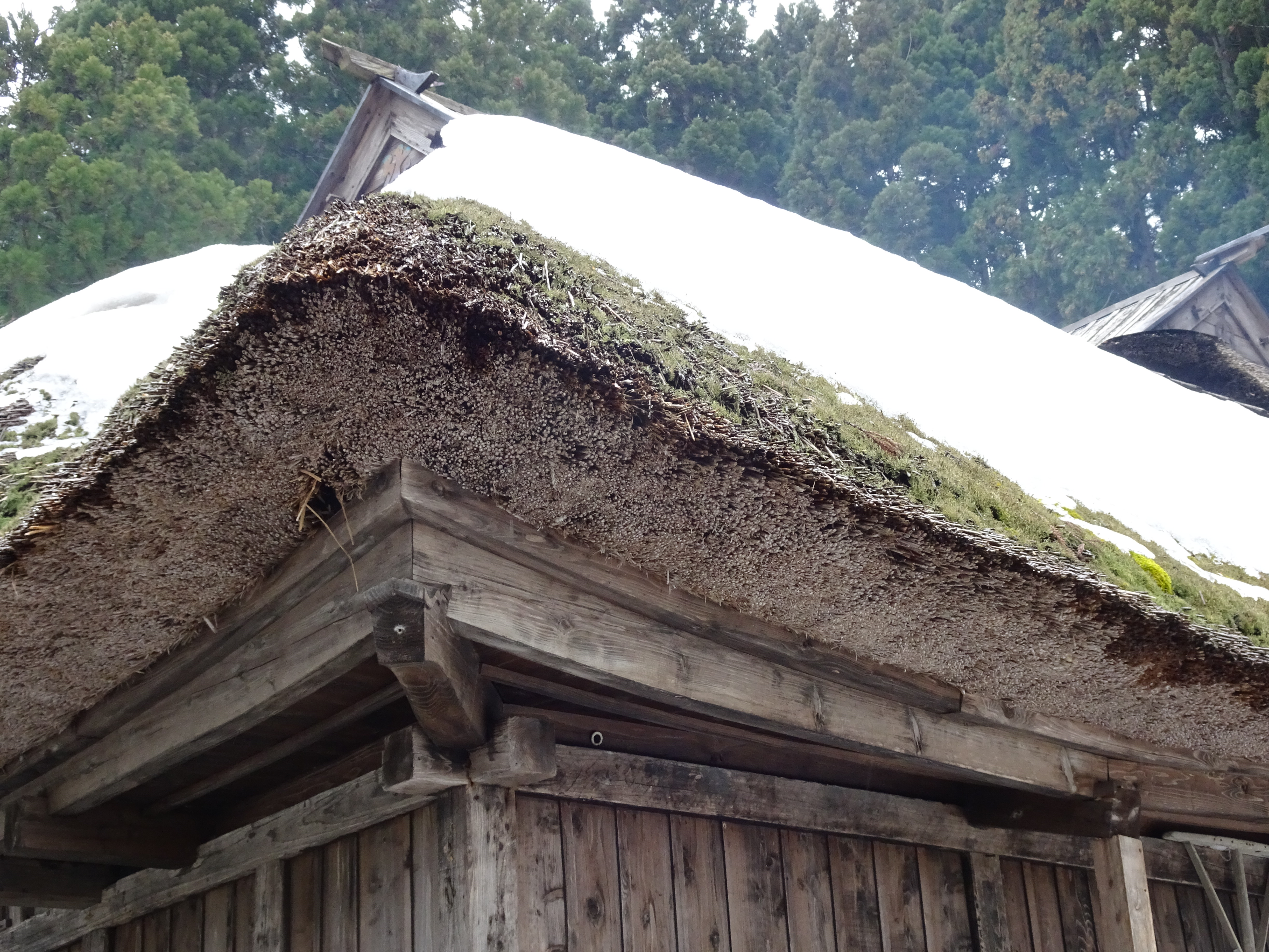 Thatched roof with snow, Oga Shinzan Denshou Kan (Oga Shinzan Folklore Museum), in Oga City Akita Prefecture March 2017